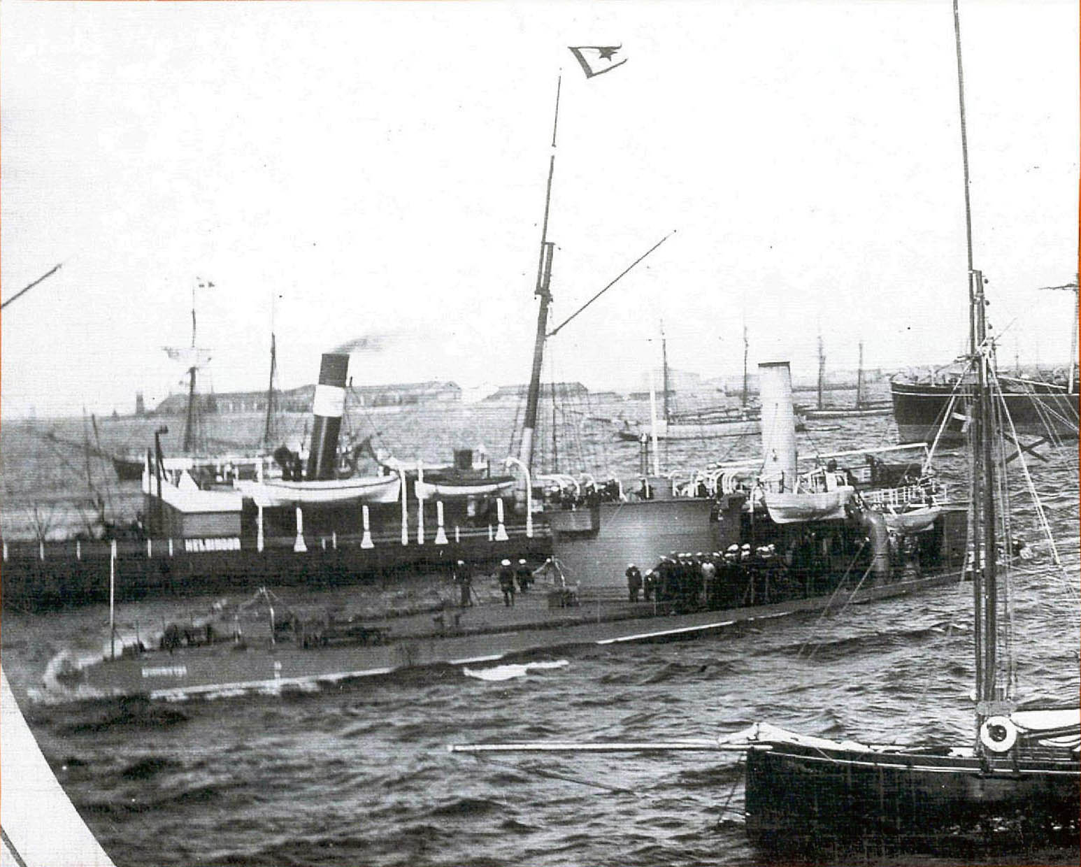 Imperial Russian turret armour-clad boat Bronenosets in Danmark.